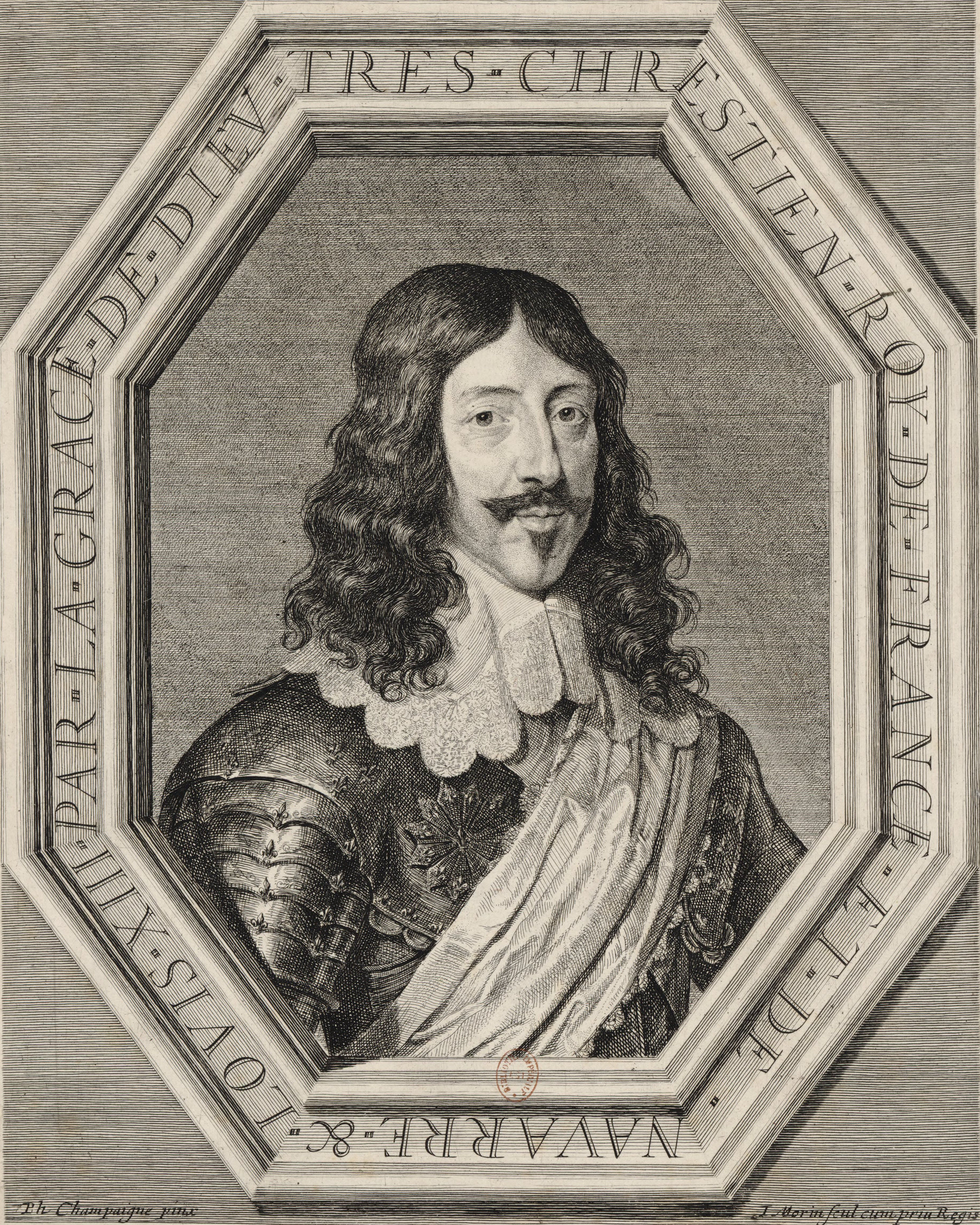 Portrait of Louis XIII of France